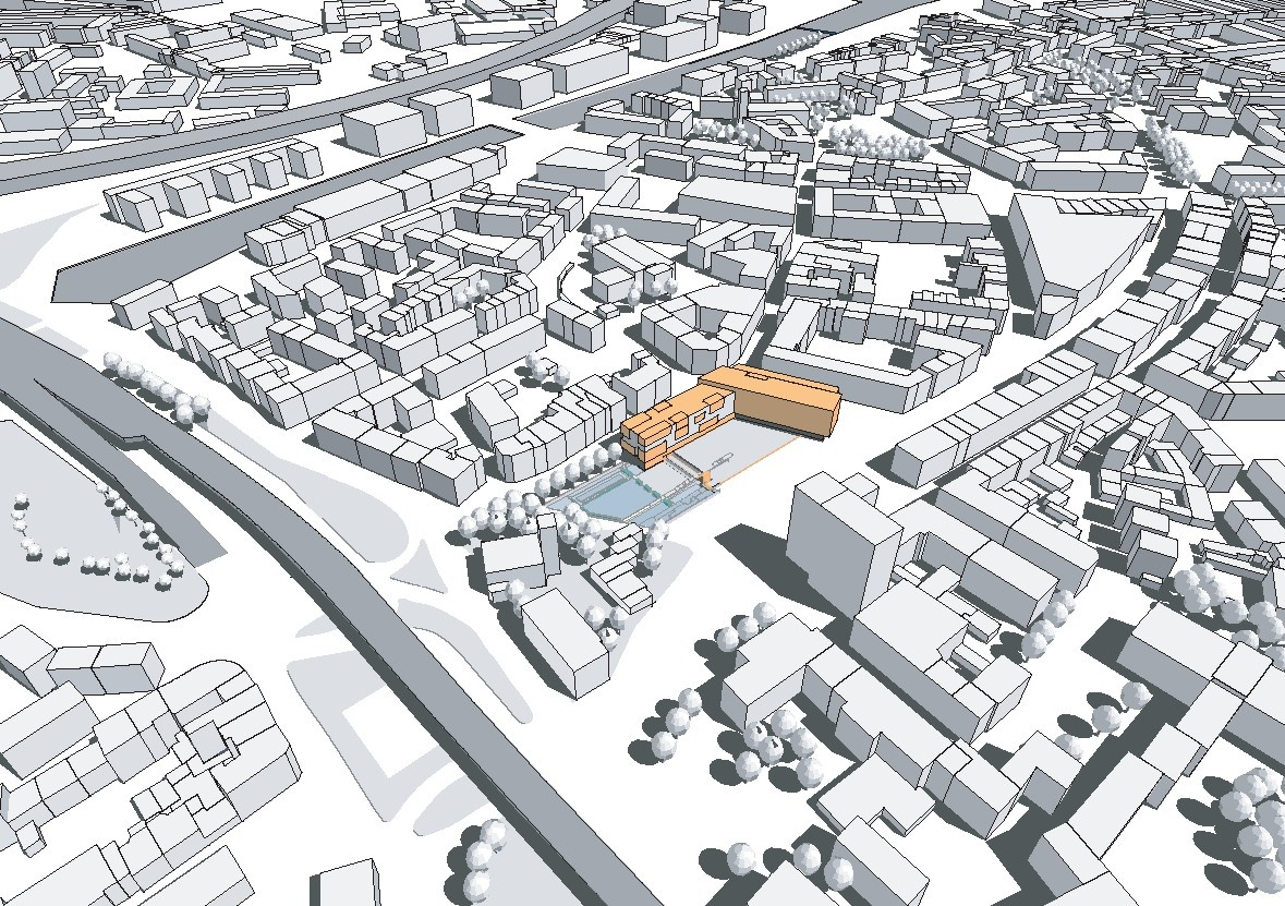 Own drawing for article Modell (Architektur) in the German wikipedia